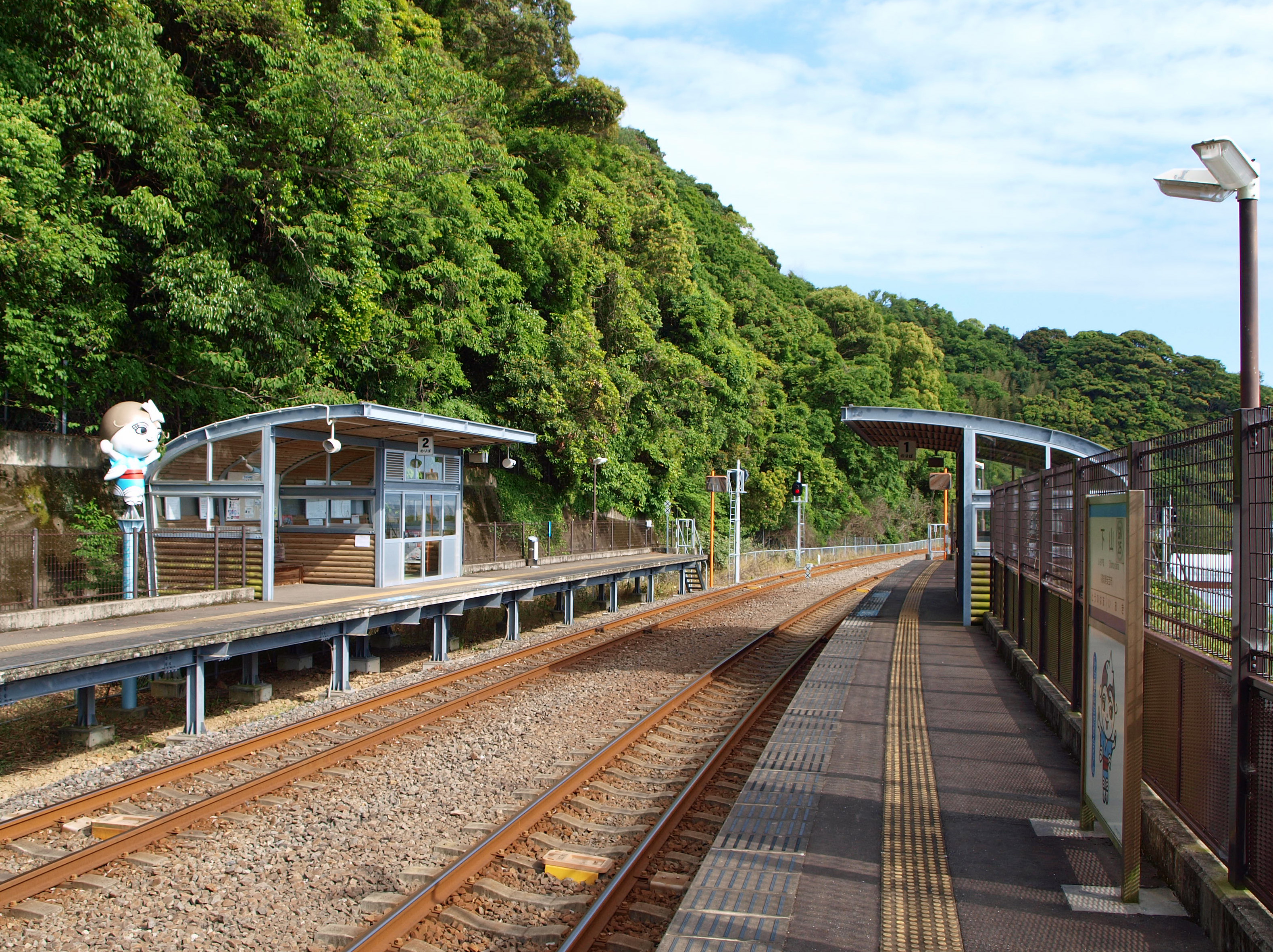 Shimoyama Station, Gomen-Nahari Line（Asa Line), Tosa Kuroshio Railway, Japan